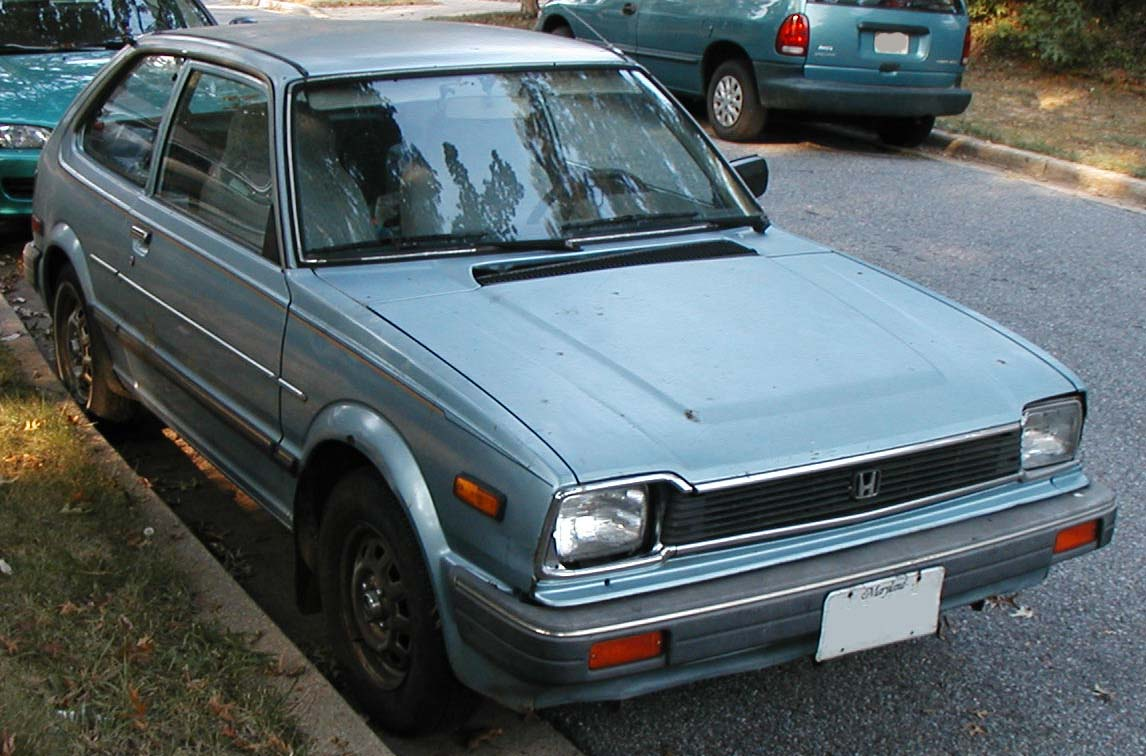 1982-1983 Honda Civic hatchback photographed in USA.